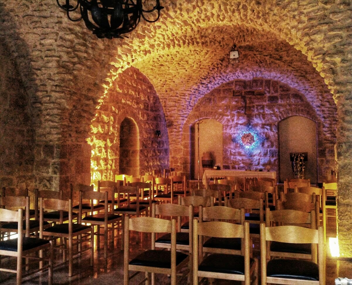 A chapel used by the monks in the wing that operated as a monastery in the building of the Lazarist church on Agron Street in Jerusalem